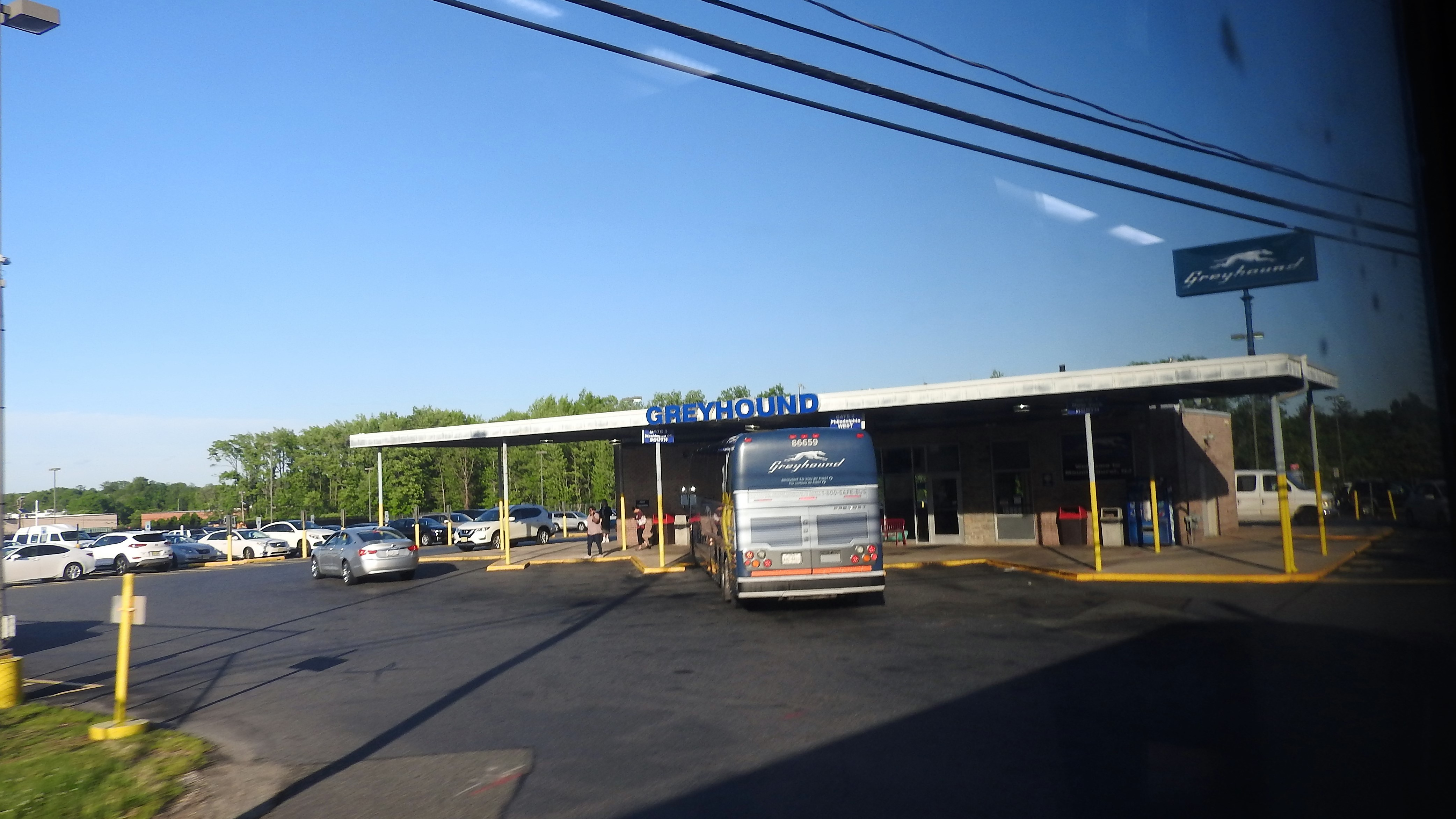 Seen through a window of a departing bus, close to sunset of a mostly sunny day